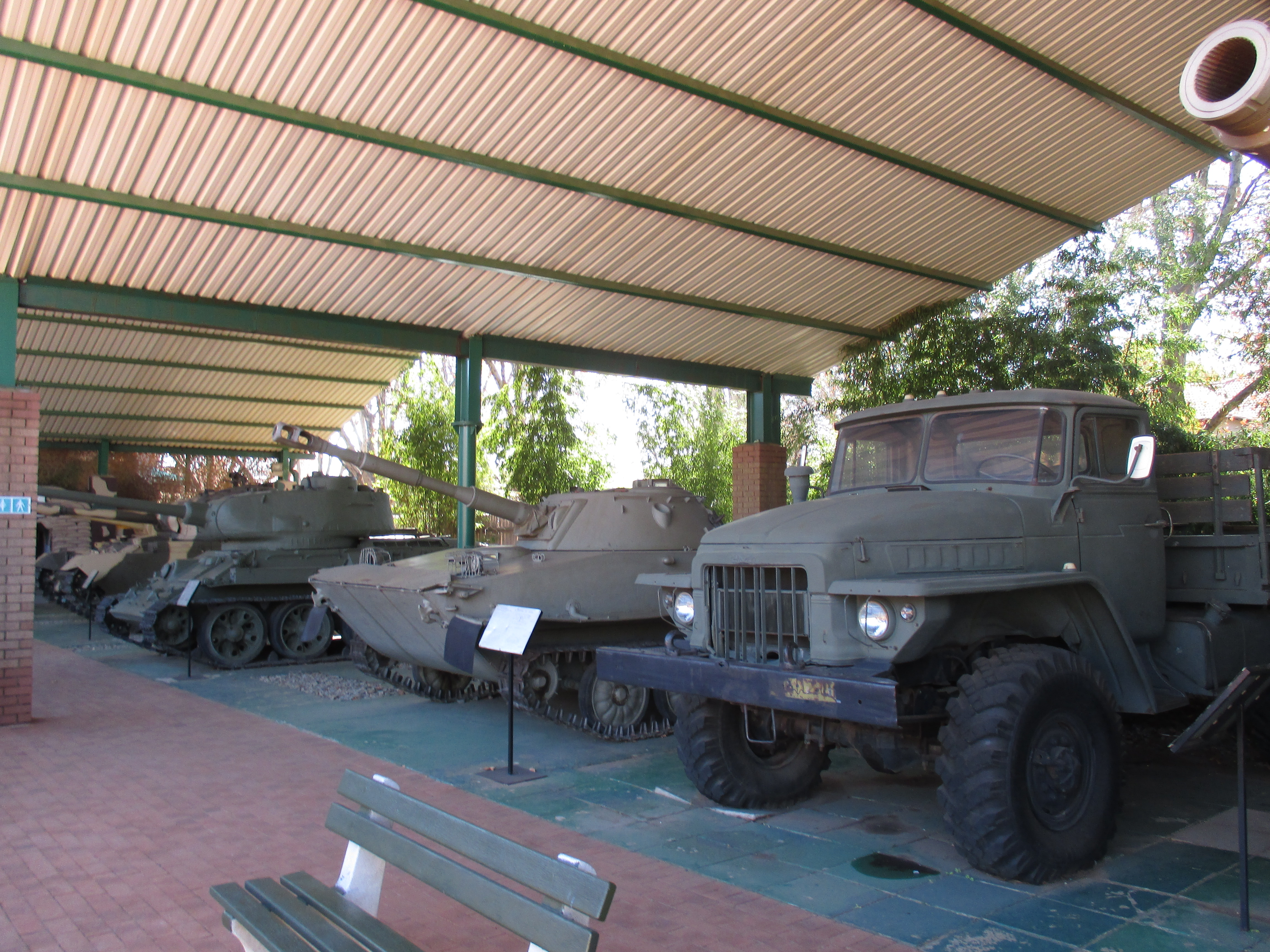 Description: Lineup of vehicles captured from the Armed Forces for the Liberation of Angola (FAPLA) at the South African National Museum of Military History, Johannesburg. From left to right: Ural, PT-76, T-34-85.